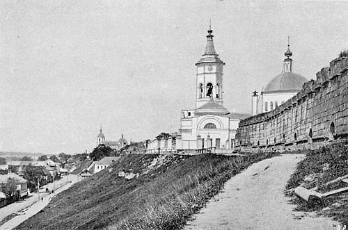 Serpukhov Kremlin and Holy Trinity Church